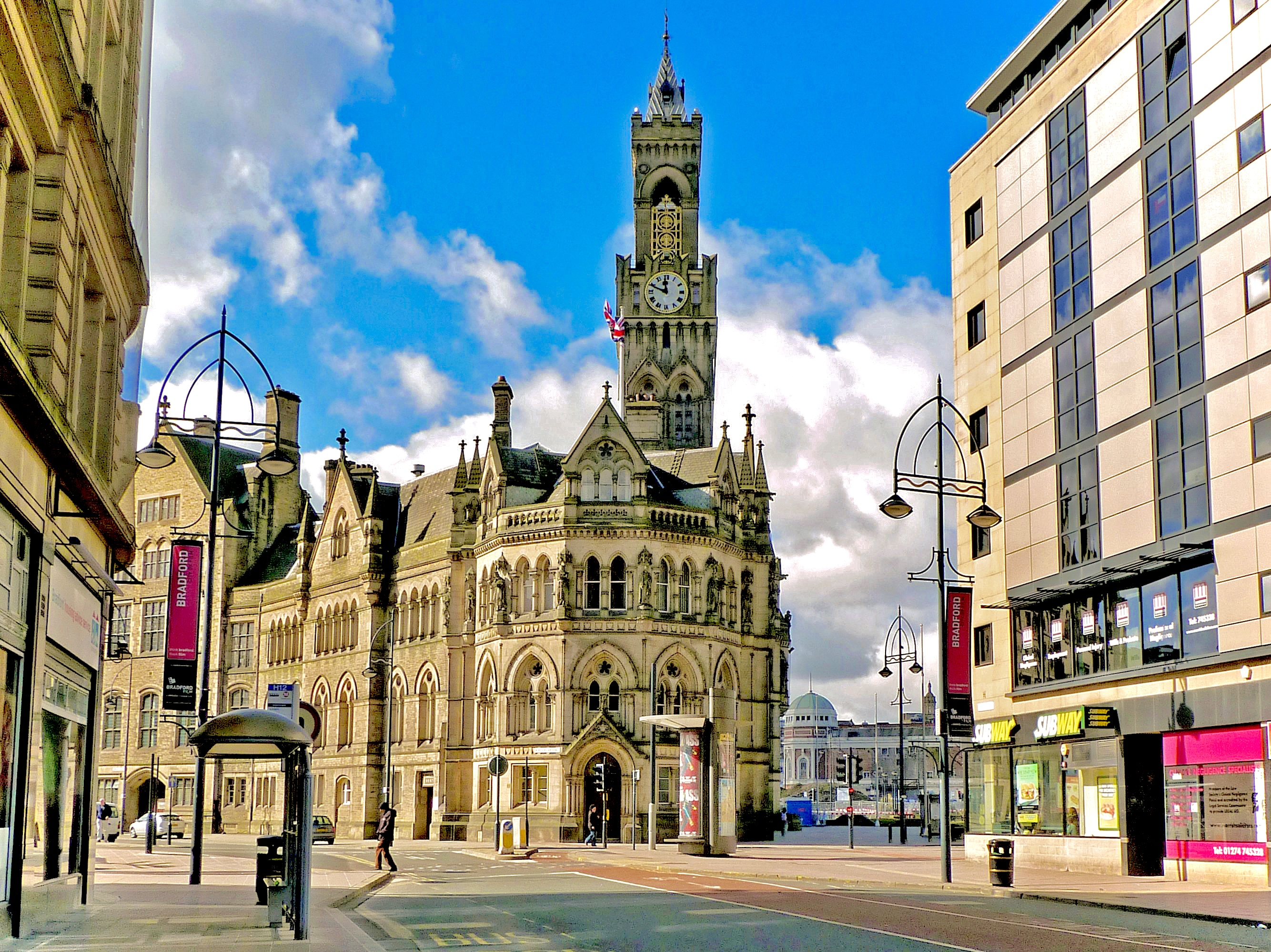 Bradford Town Hall